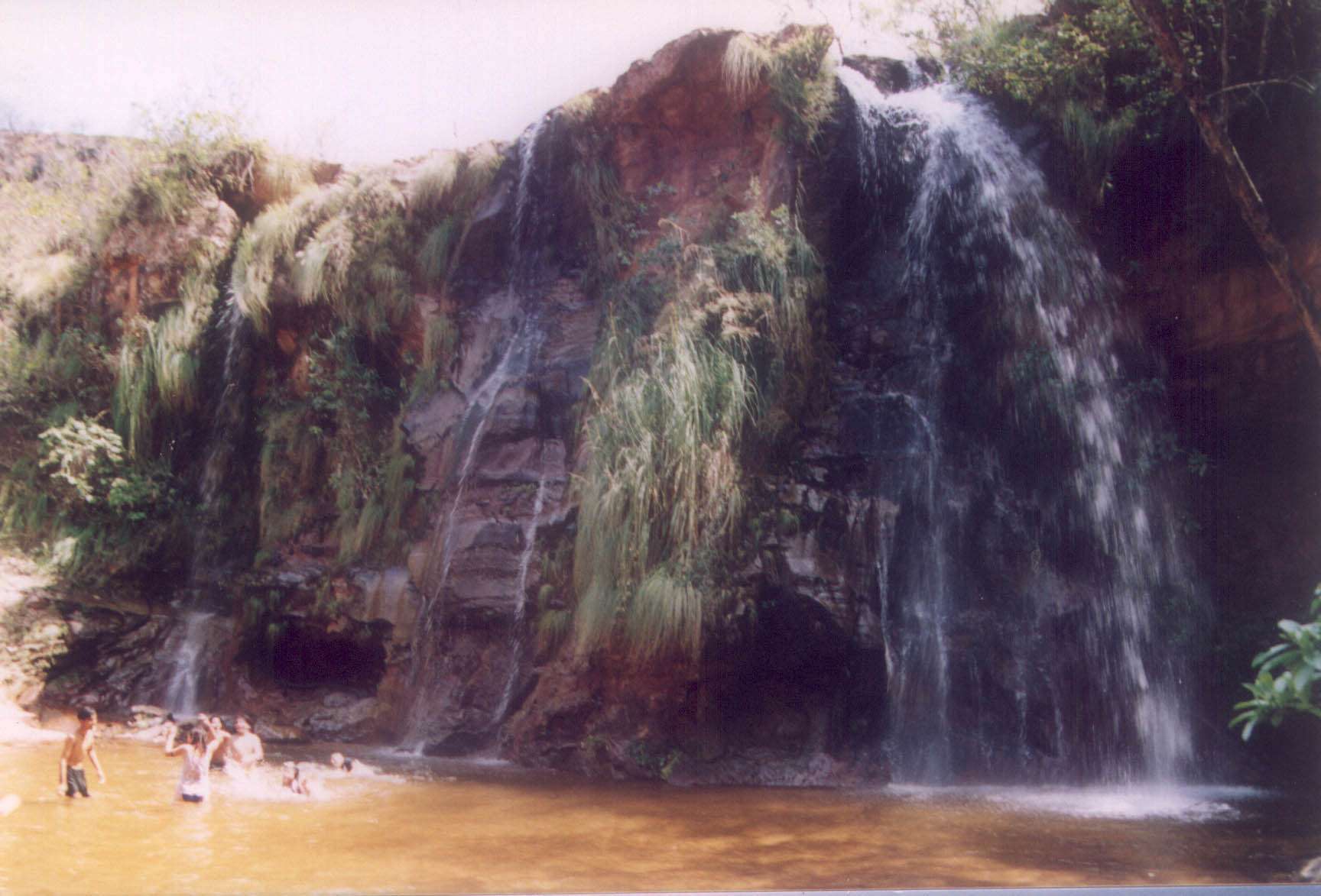 Las Cuevas. Near Samaipata, Bolivia. Pools where the locals bathe.